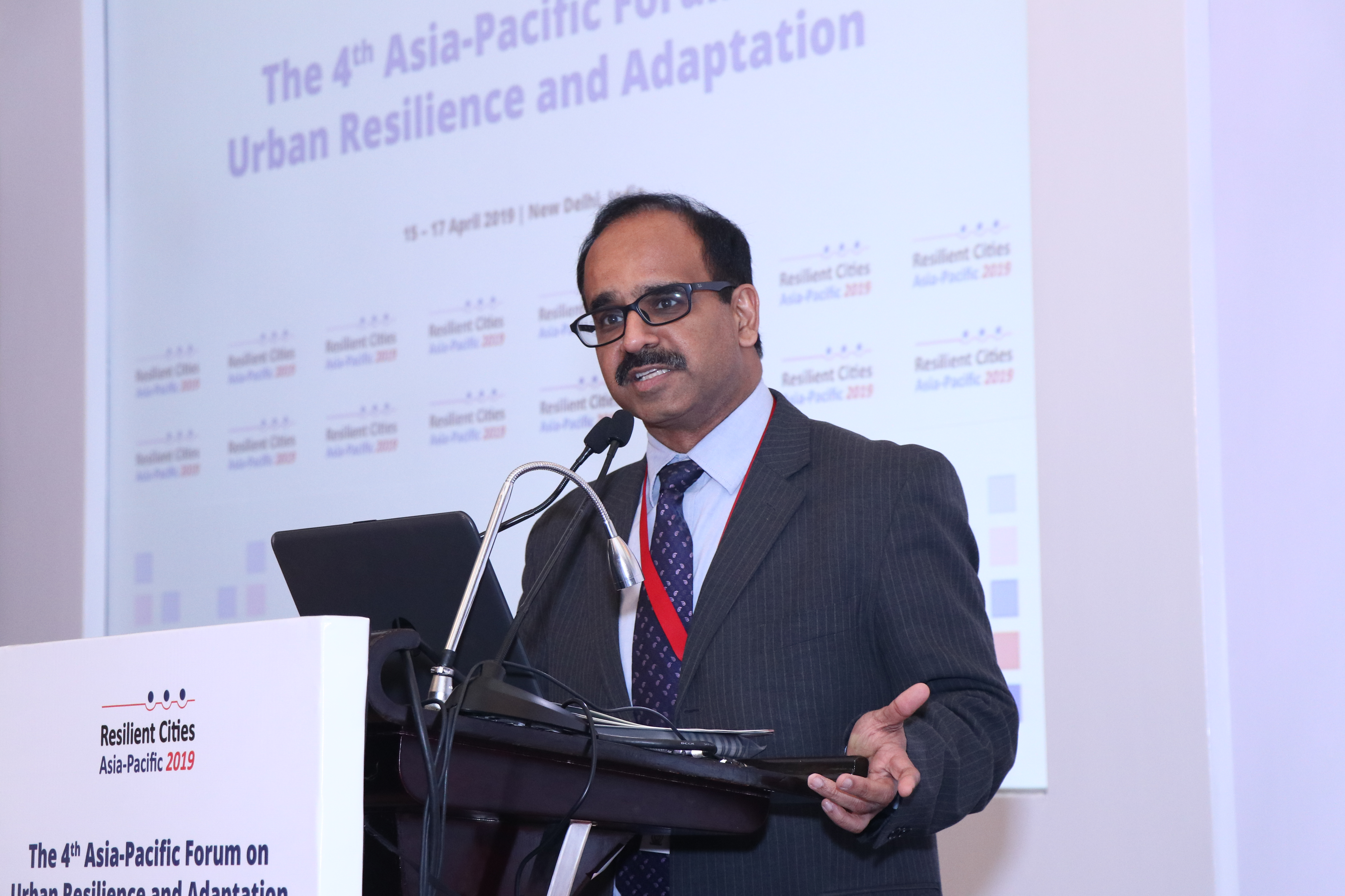 Resilient Cities Asia-Pacific 2019 is a project under ICLEI South Asia